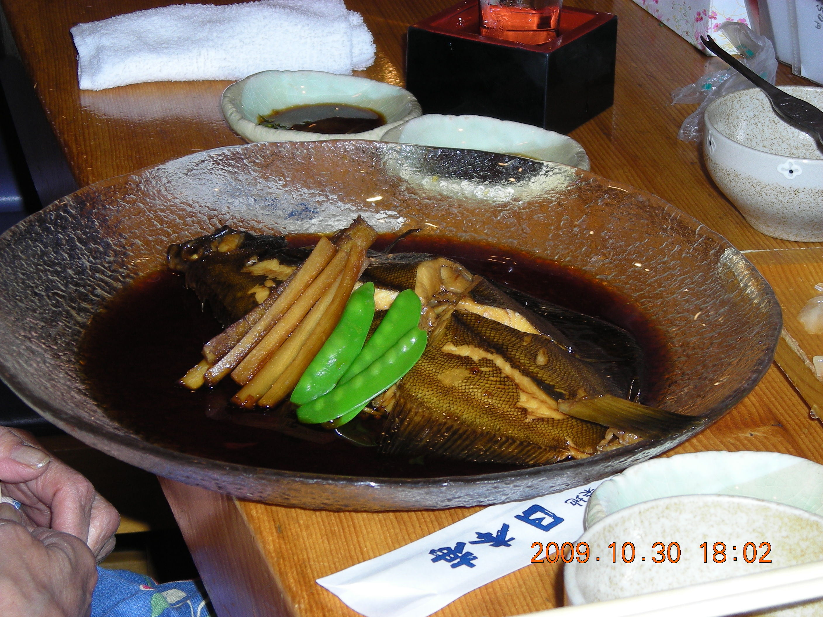 a grilled abramis